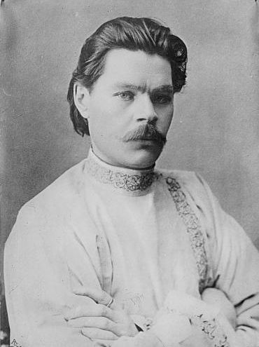 Maxim Gorky, russian writer